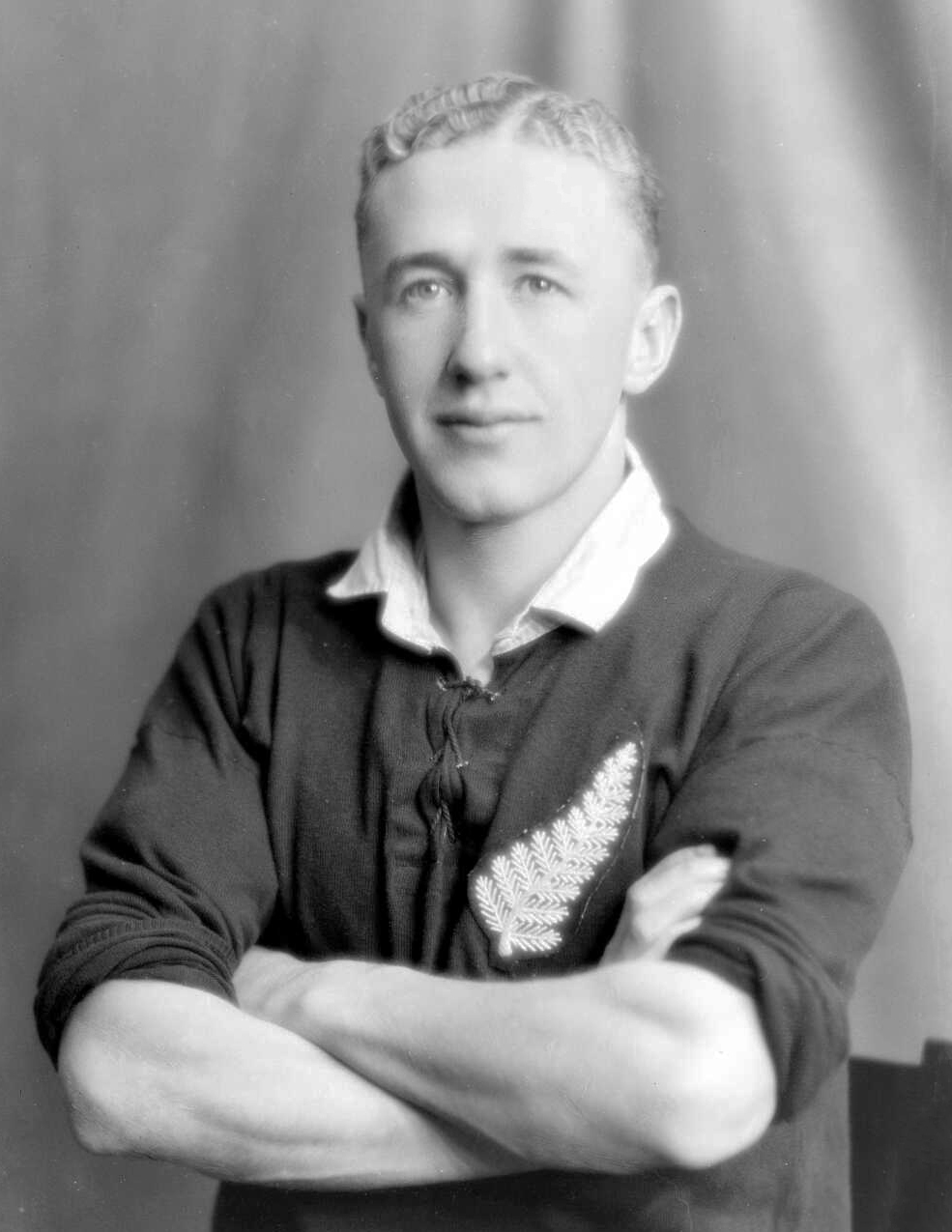 Photograph of rugby player Jack Griffiths, taken by Crown Studio Ltd of Wellington.